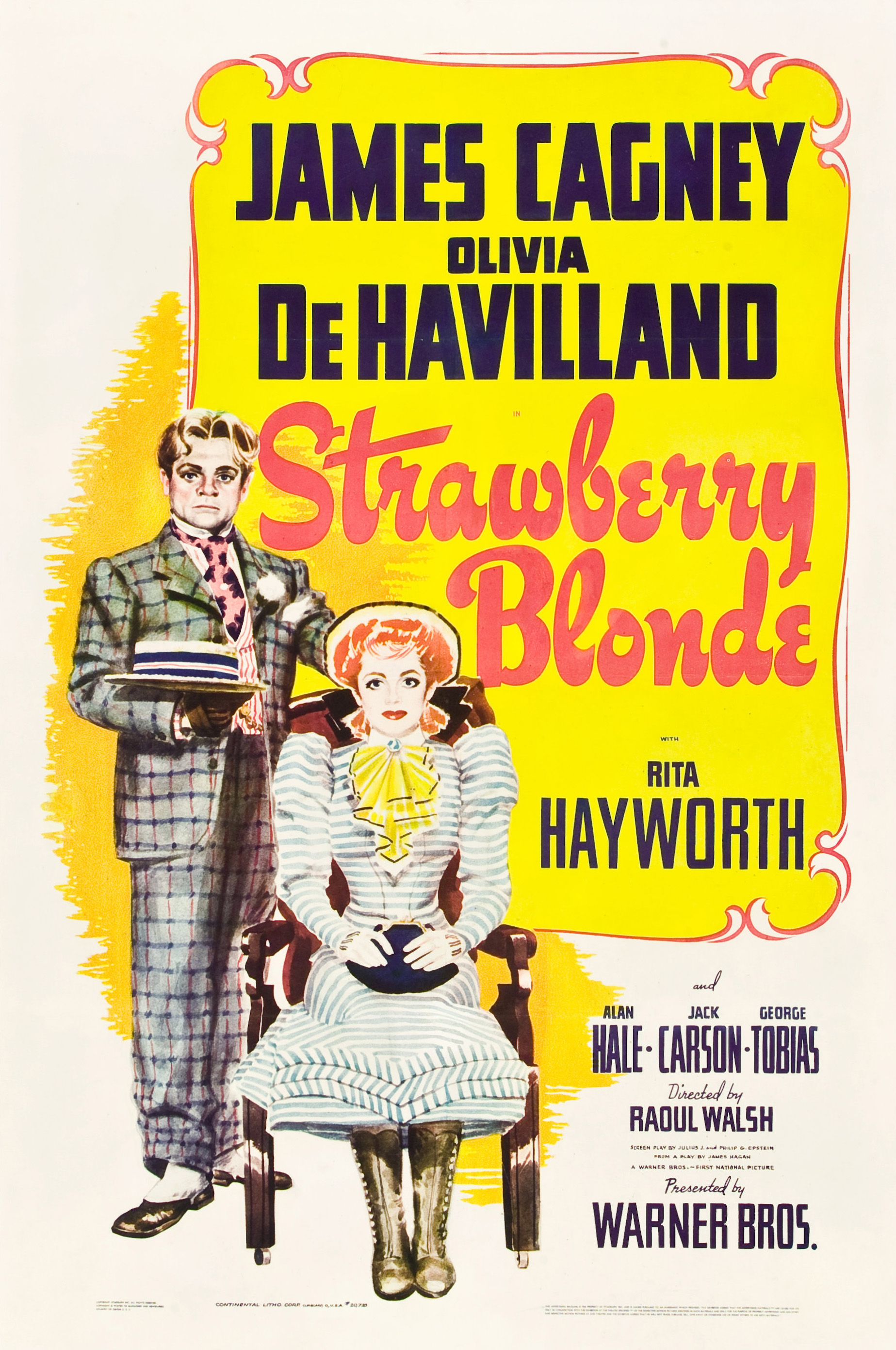 Theatrical release poster for the 1941 film The Strawberry Blonde. This one-sheet poster, like other promotional material for the film, gave its title as "Strawberry Blonde" without the "The".